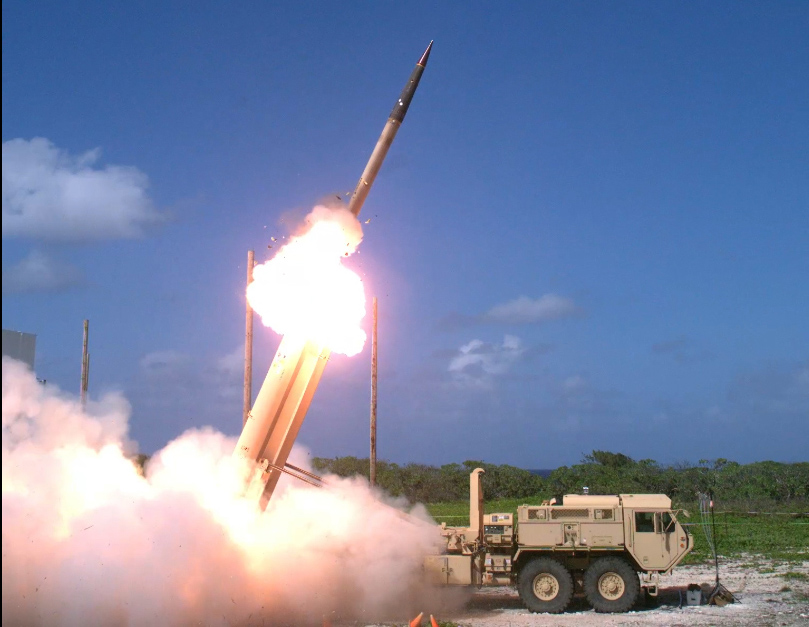 A Terminal High Altitude Area Defense (THAAD) interceptor is launched from a THAAD battery located on Wake Island, during Flight Test Operational (FTO)-02 Event 2a, conducted Nov. 1, 2015. During the test, the THAAD system successfully intercepted two air-launched ballistic missile targets.